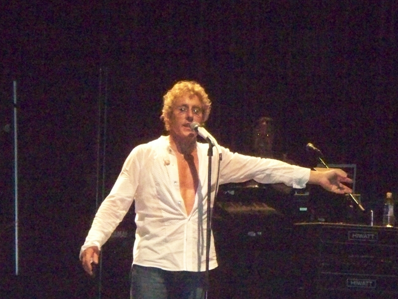 Roger Daltrey of The Who- lead singer of British classic rock band The Who, performed at the House Of Blues, Boston, Mass. on Nov. 8, 2009.